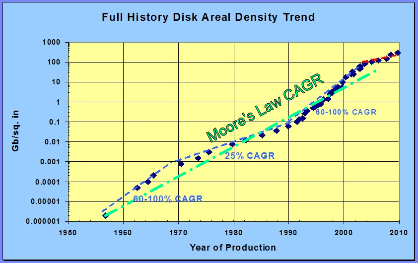 A plot of the leading edge hard disk drive areal densities from 1956 thru 2009 including several trend lines derived from the data.